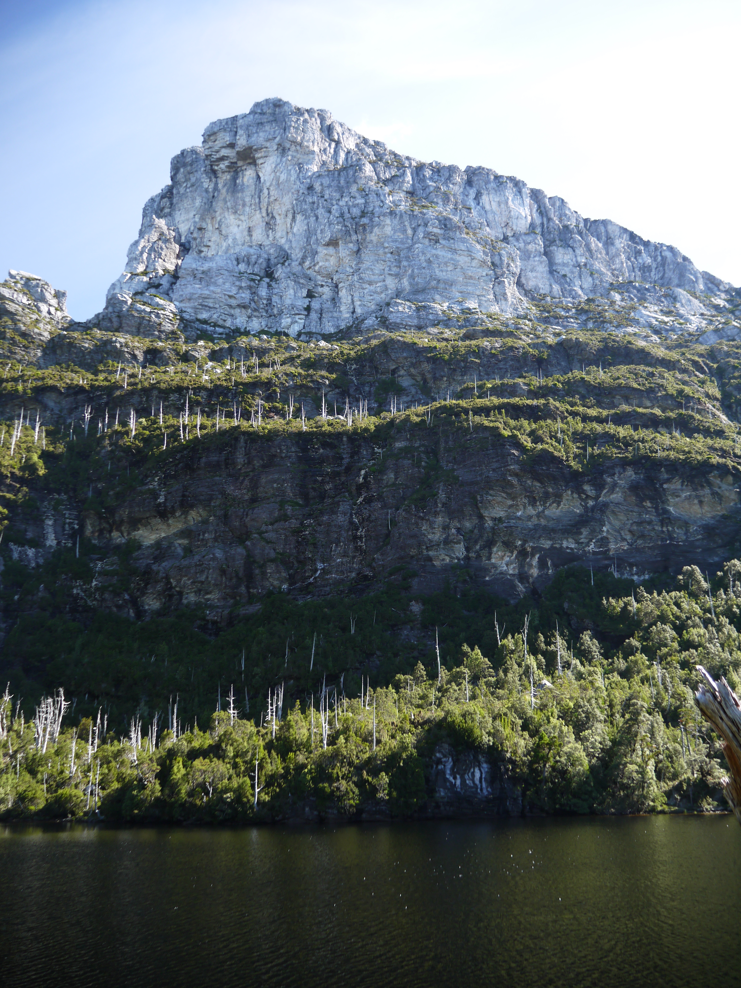 Frenchmans Cap from the lake shore